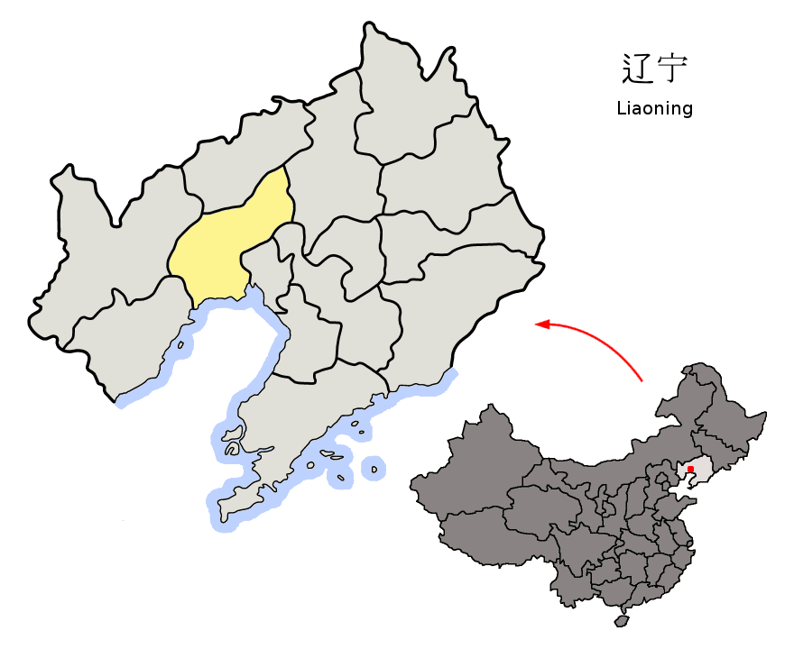 Location of Jinzhou Prefecture (yellow) within Liaoning Province of China Map drawn in november 2007 using various sources, mainly : Liaoning Province administrative regions GIS data: 1:1M, County level, 1990 Liaoning Counties map from